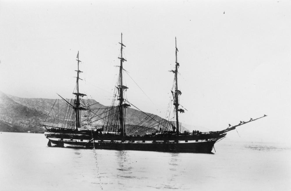 Peter Denny (Ship) Stamped on the back of the photograph is 'De Maus, Port Chalmers'. According to the Alexander Turnbull Library, David Alexander De Maus. of South Devon, England; 1847-1925 arrived in New Zealand by the 'Caribou' in 1867 and set up a photography business in Port Chalmers. According to Harwicke Knight, Photography in New Zealand; a social and technical history, 1971, he was known to have been actively taking pictures between 1875 and 1899. Probably named for Peter Denny scottish shipbuilder and ship owner who was a shareholder in the Albion shipping company which ordered and first operated the ship, built 1865 by Duthie of Aberdeen.